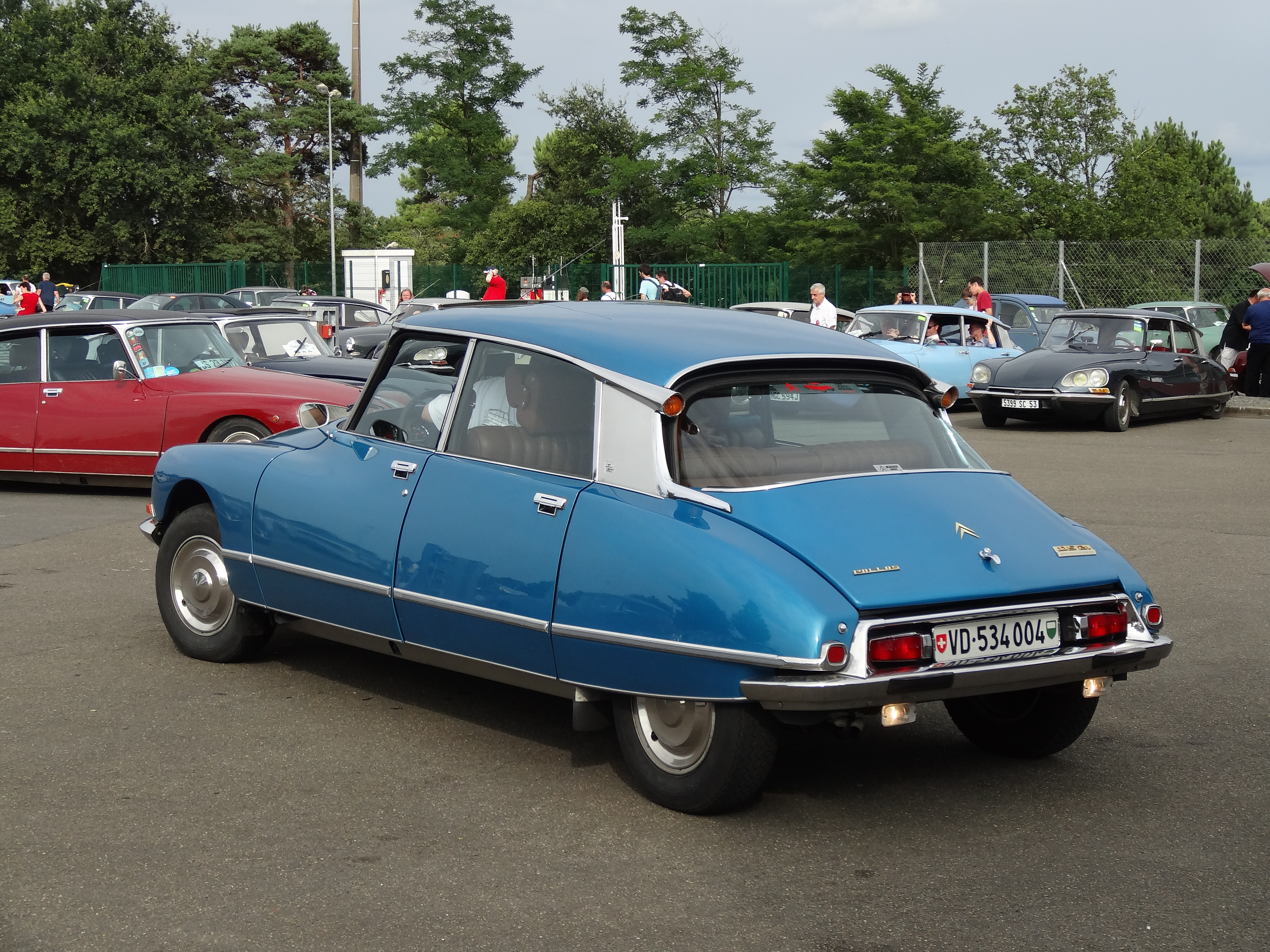 EuroCitro 2014 Le Mans - Citroën DS